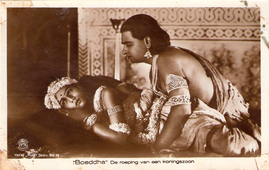 The translation of the Dutch text on the back of this postcard reads: “Seeta Devis plays in the new Indian film by Emelka: ‘Boeddha, De roeping van een koningszoon’, the role of Princess Gopa. Like all the other actors in the film she is not a professional, but was especially for this part discovered by director Franz Osten. When Osten heard that she would be the perfect type he was looking for, he traveled for 56 hours by train through burning hot India. And he made this beautiful, only 16 year old Indian girl a film star.” In fact the birthname of Seeta Devi (1921) is Renee Smith. She made her film debut in this film, officially called Prem Sanyas (or Die Leuchte Asiens, 1925). This German production was co-directed by Franz Osten and by the other actor on the postcard. Himansu Rai. Seeta Devi would act in ten more films.